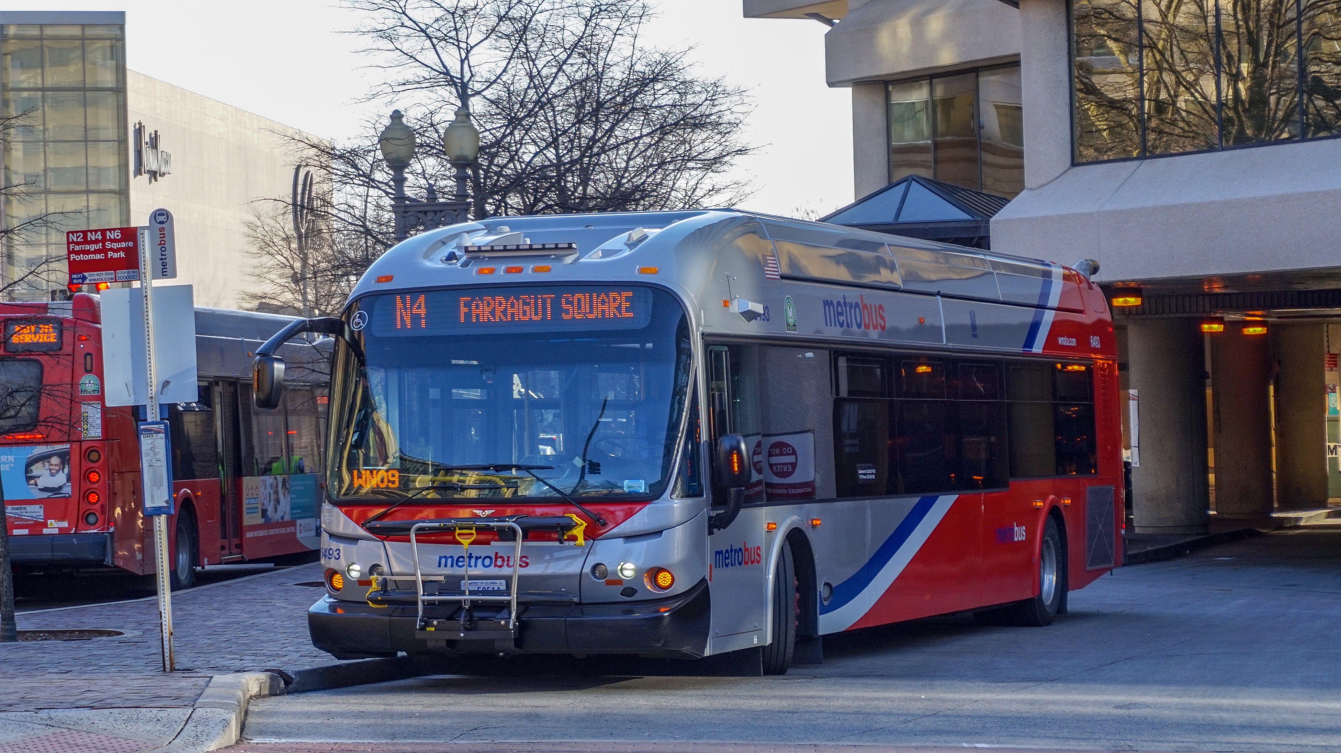 Here is WMATA 2010 New Flyer DE40LFA freshly rehab at the Friendship Heights Station